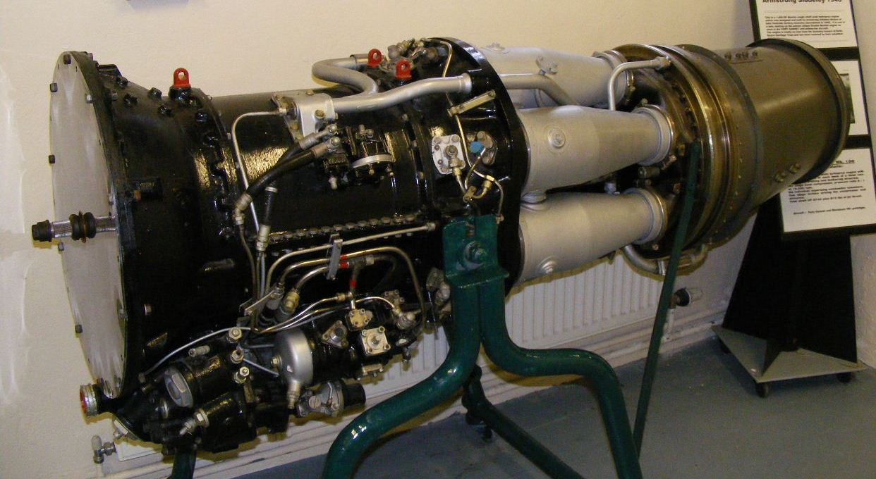 Armstrong Siddeley Mamba A.S.M.3 turboprop engine